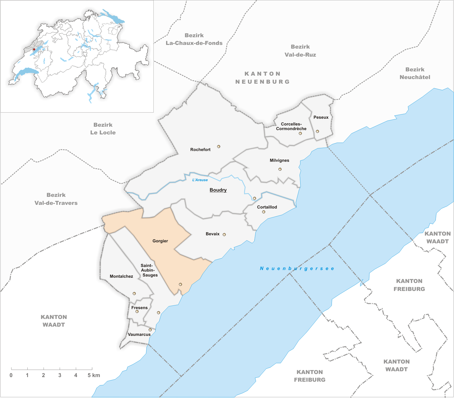 Municipality Gorgier